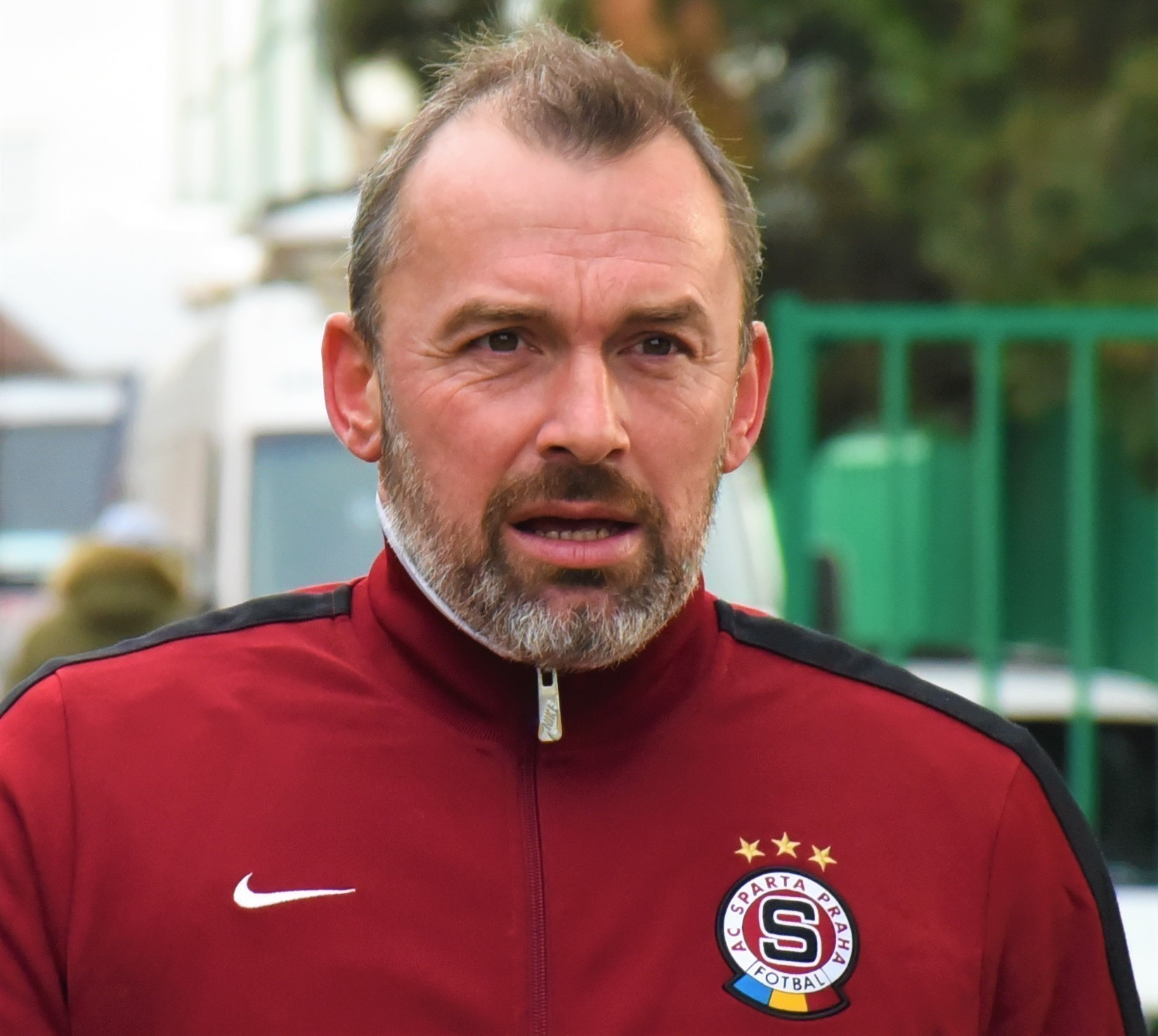 Jaromír Blažek, Czech footballer - goalkeeper